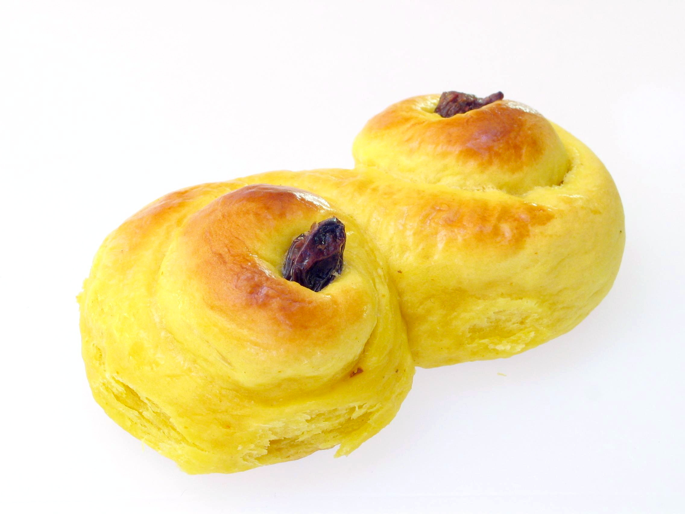 Saffron bun, photo taken in Sweden